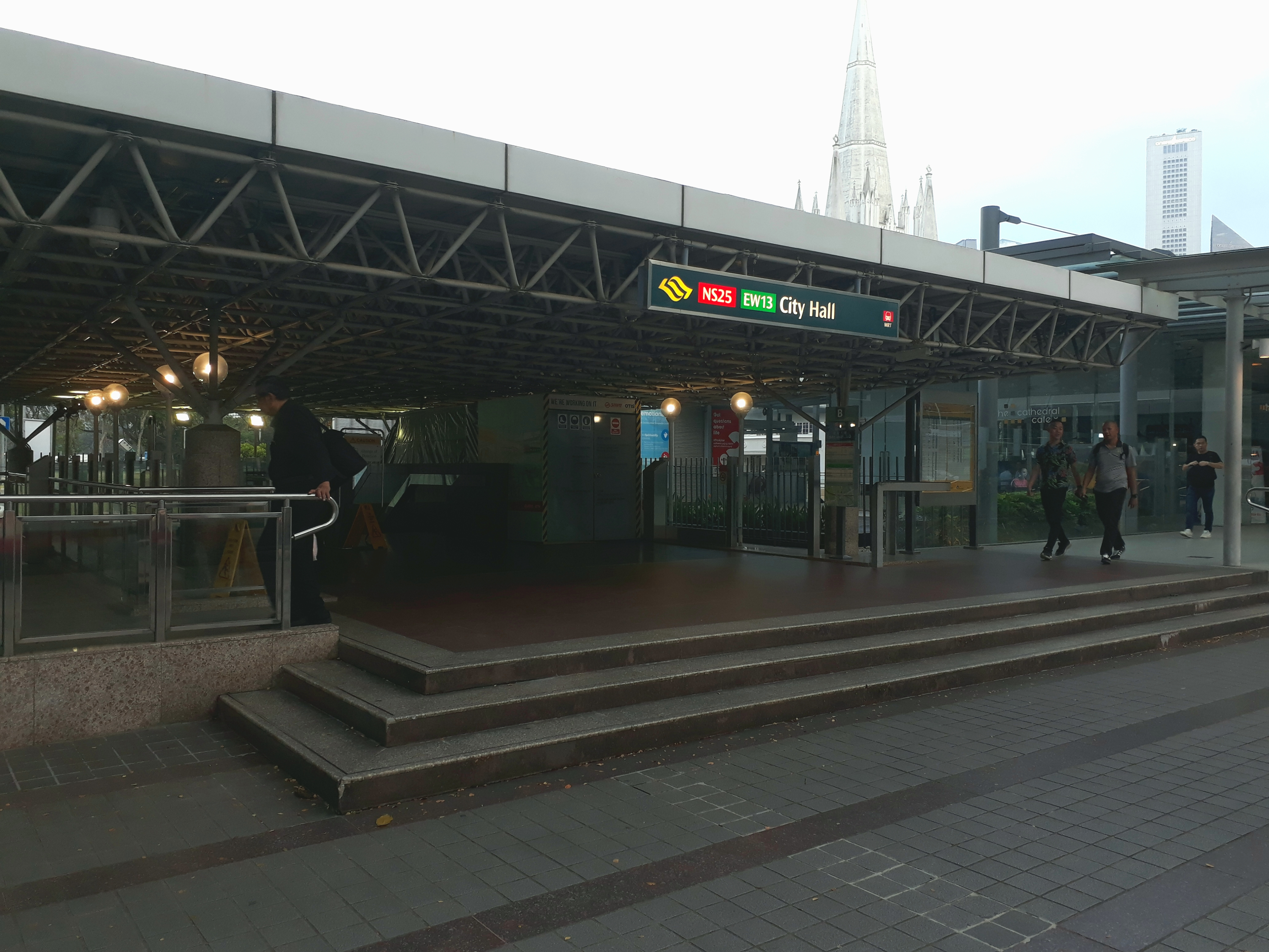 City Hall with Saint Andrew's Cathedral in the bakcground